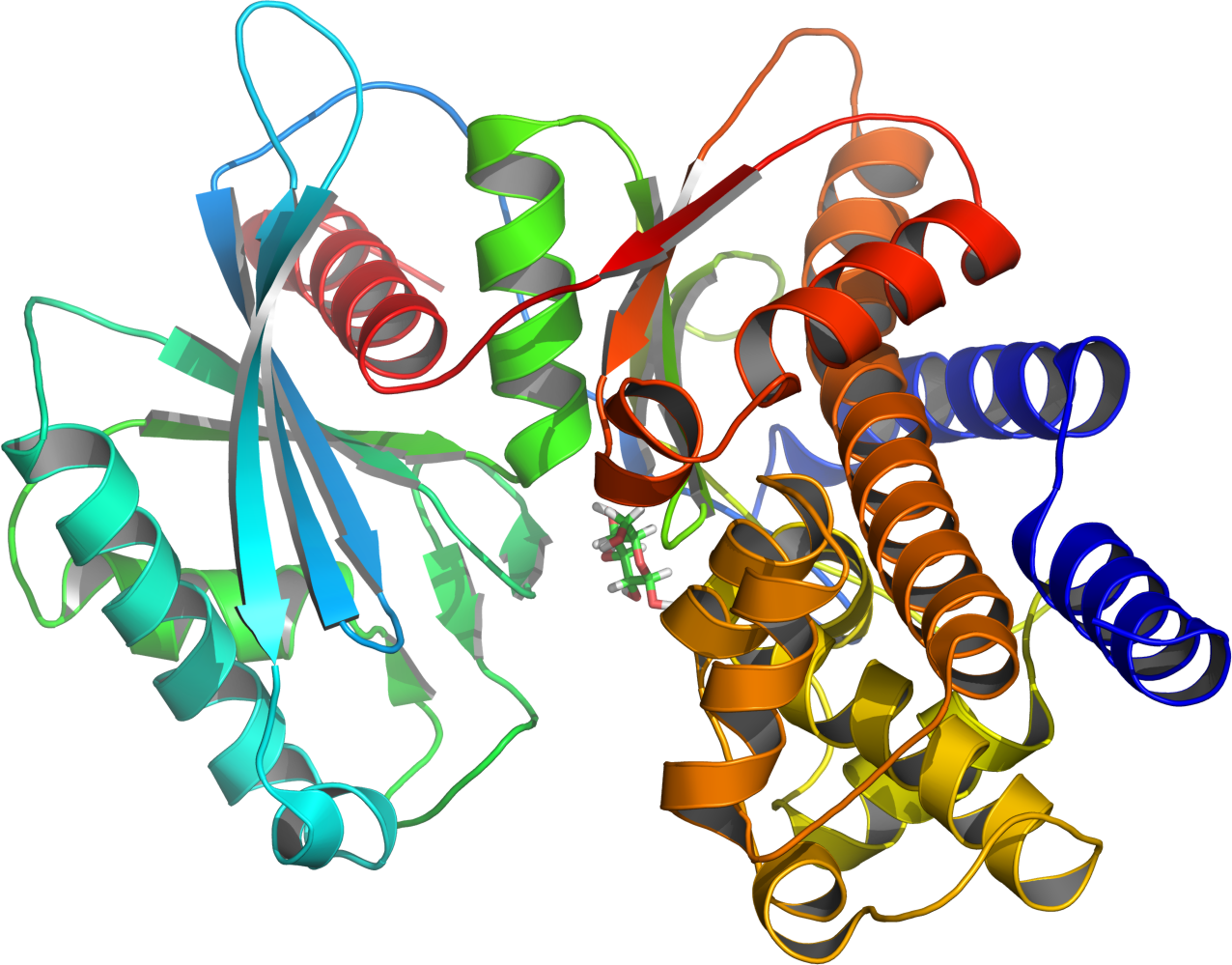 Gen w/ Deepview from PDB 1GLK Category:Protein images